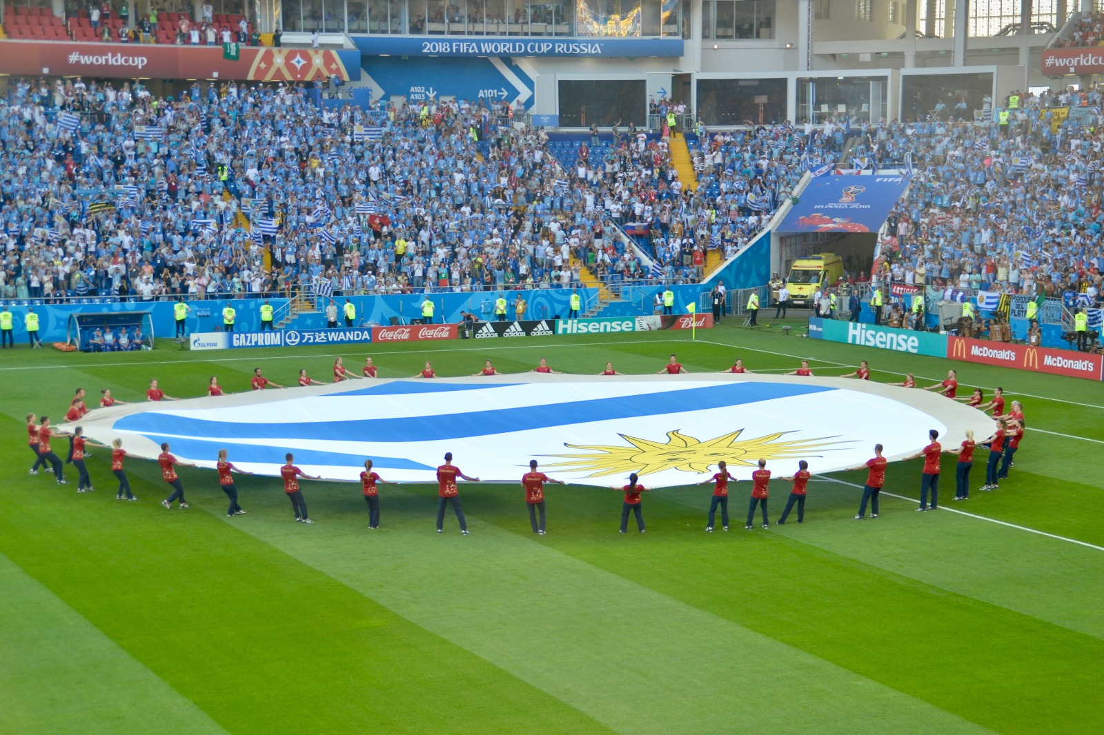 Saudi Arabia and Uruguay match at the 2018 FIFA World Cup.